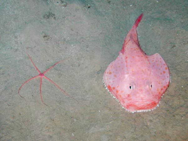 Redeye_Gaper_Chaunax pictus. This odd pair came together in a most unusual way. As the ROV was positioning to take a still photo of the redeye gaper fish, the brittle star, in the same beautiful shade of pink, swam furiously into view and positioned itself for a photo opportunity. Image courtesy of University of Alabama and NOAA OE.